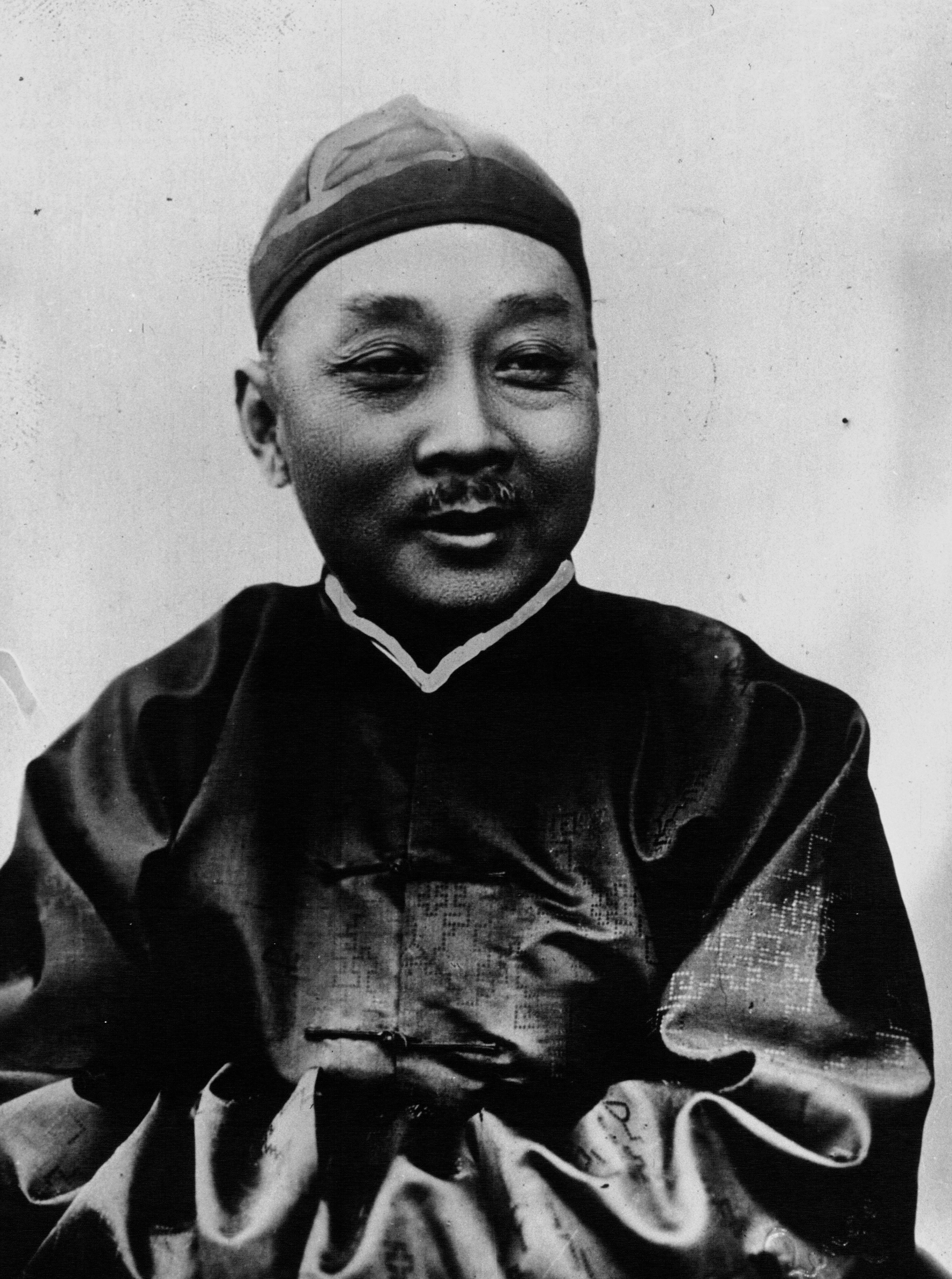 Chinese politician Xie Jishi (1887-1946) as Foreign Minister of Manchukuo in 1932.